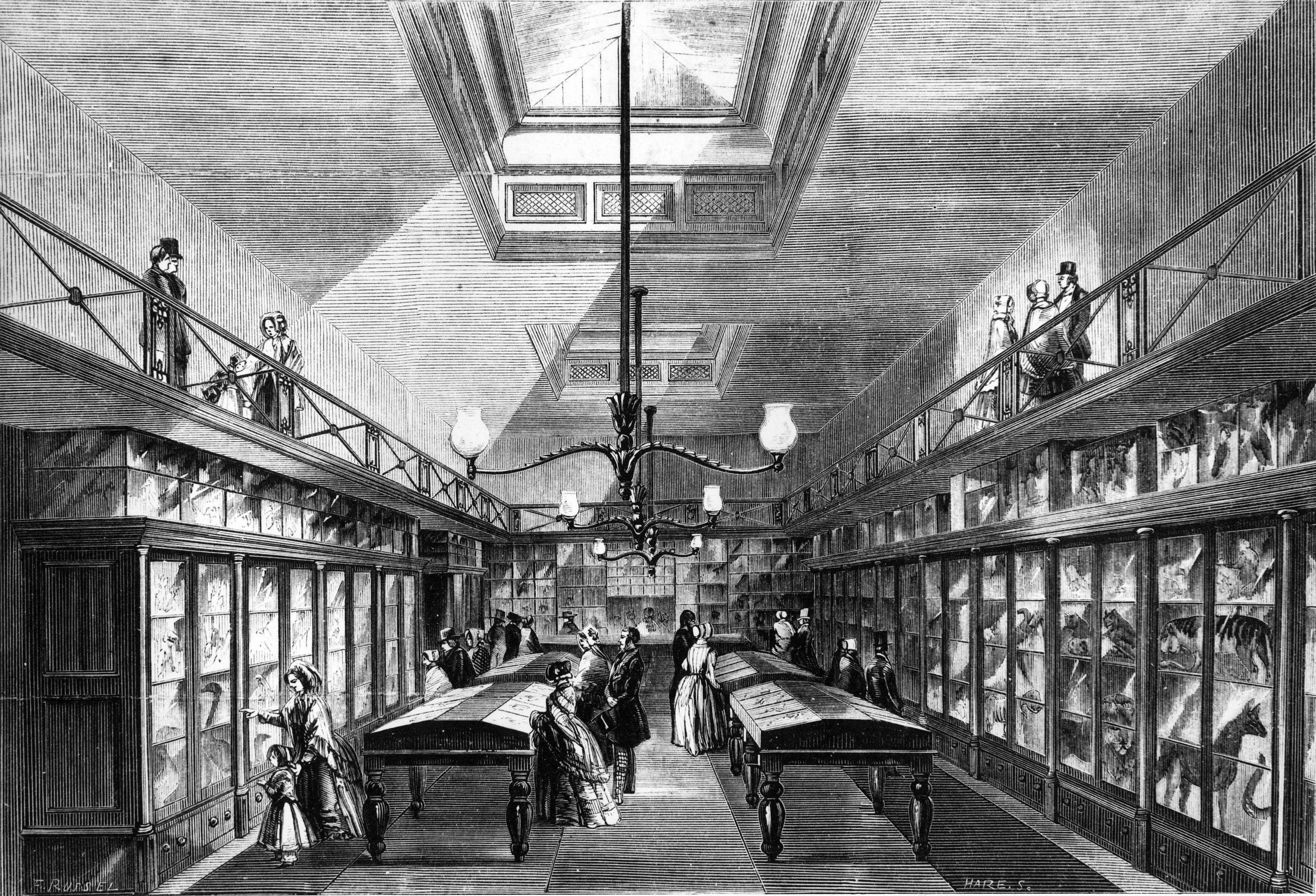 Engraving of c. 1850, after a drawing by Frederick Brett Russell (1813-1869), of the Museum Room containing natural history specimens at the new Museum at Ipswich, Suffolk, UK, soon after its opening in 1847: scan from artwork of c. 1850.